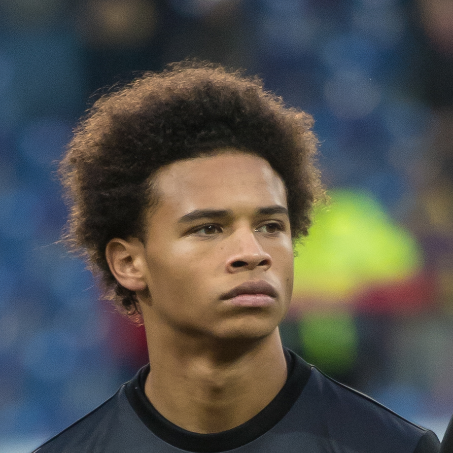 European Under-21 Championship 2017 Qualifying Round, Austria vs Germany, 11/10/2016, St. Polten